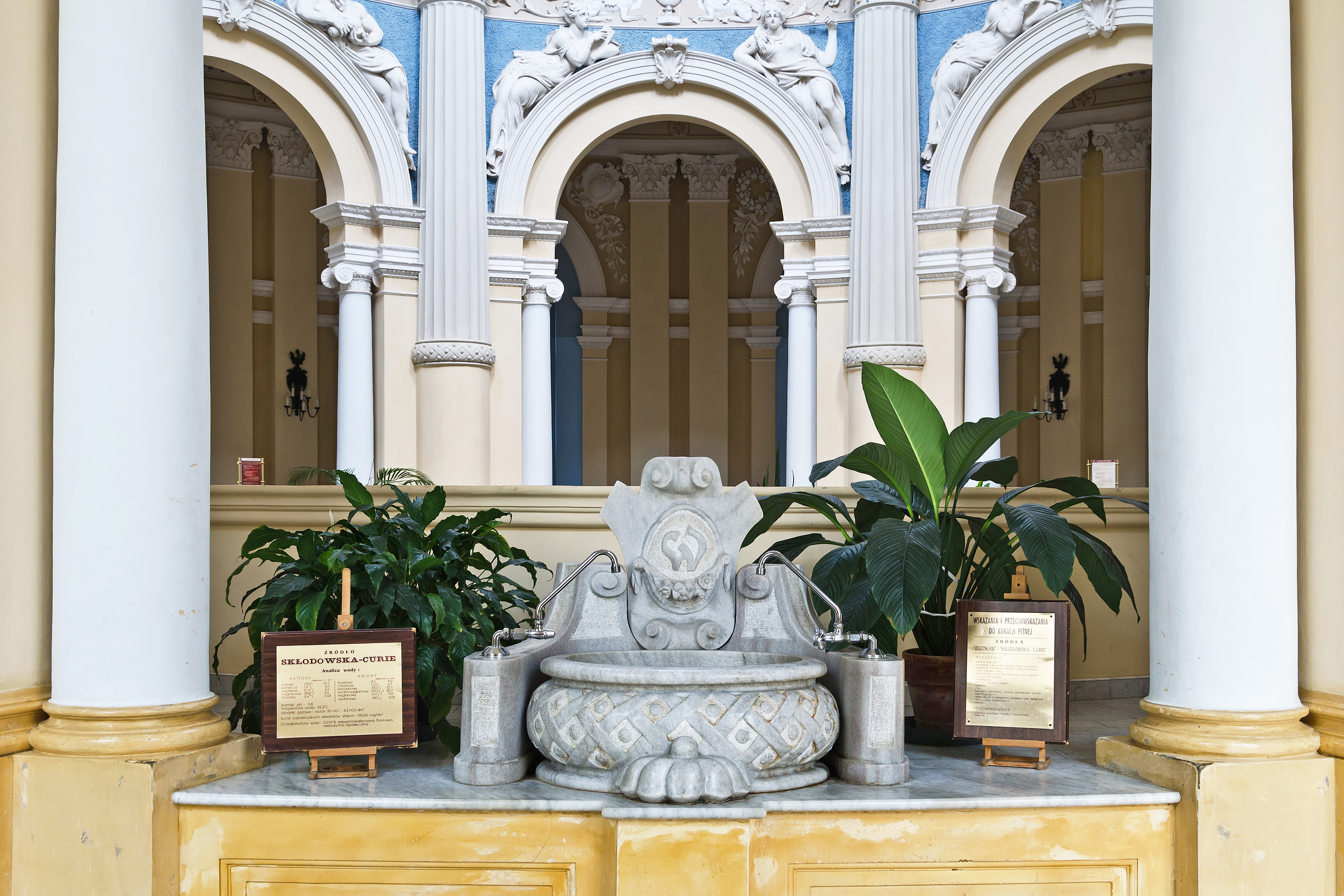 Wojciech Sanatorium in Lądek-Zdrój, Maria Skłodowska-Curie spring